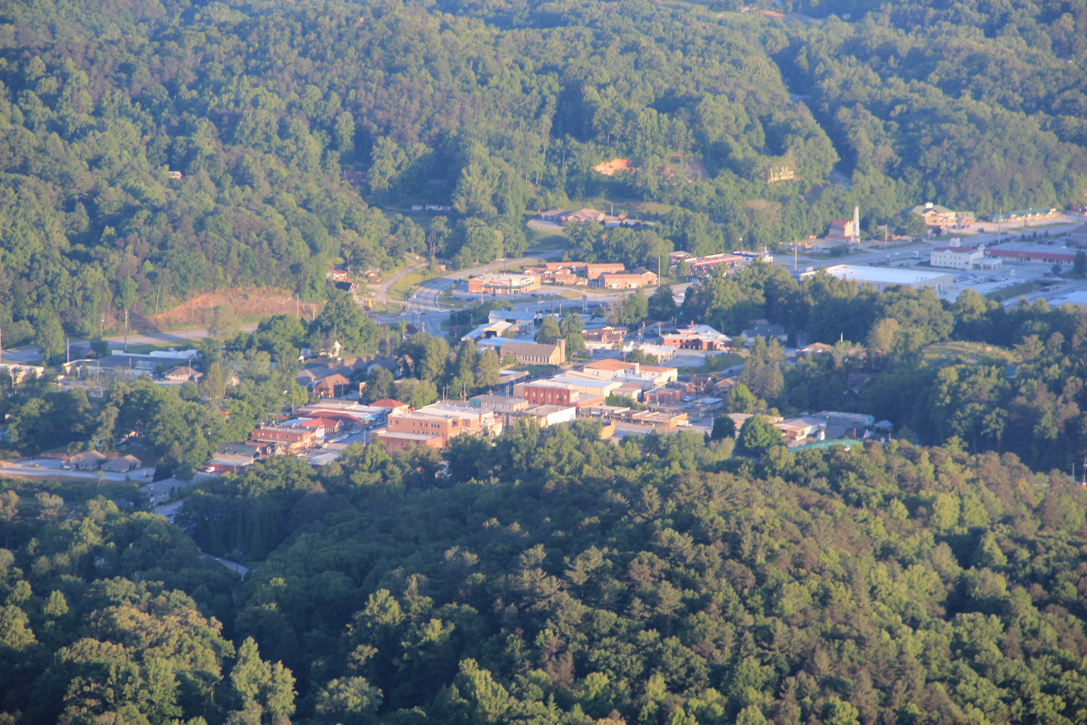 View of Clayton, Georgia from Black Rock Mountain State Park